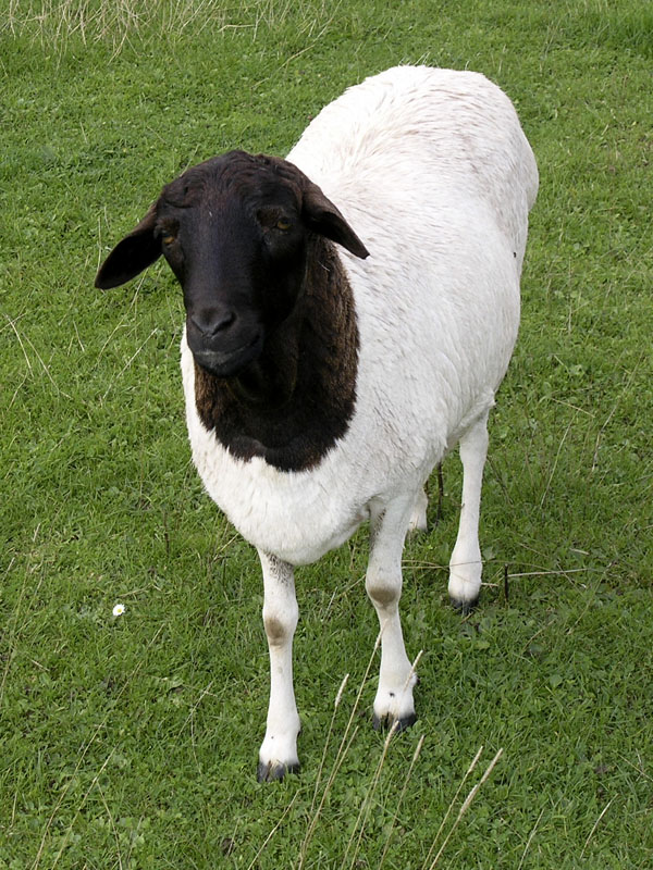 A Blackhead Persian hair sheep.